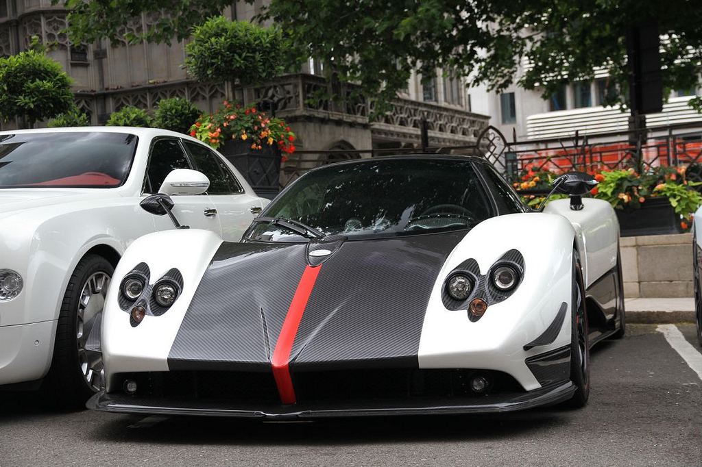 5 Of 5!! For More Photo's Check